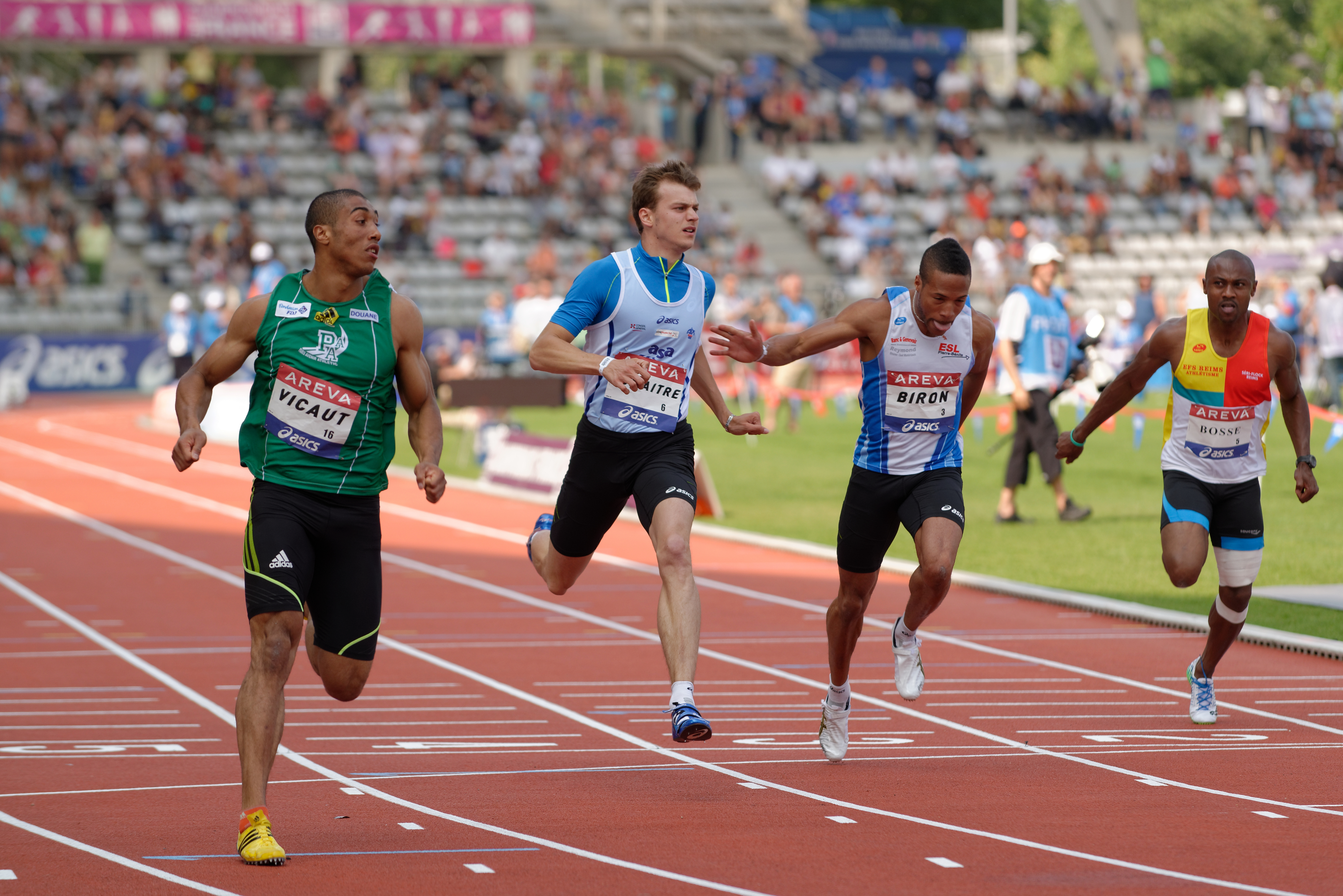 From left to right, Jimmy Vicaut, Christophe Lemaitre, Emmanuel Biron, and Béranger Aymard Bosse decelerate after running the men's 100-metre race during the French Athletics Championships 2013 at Stade Charléty in Paris, 13 July 2013.